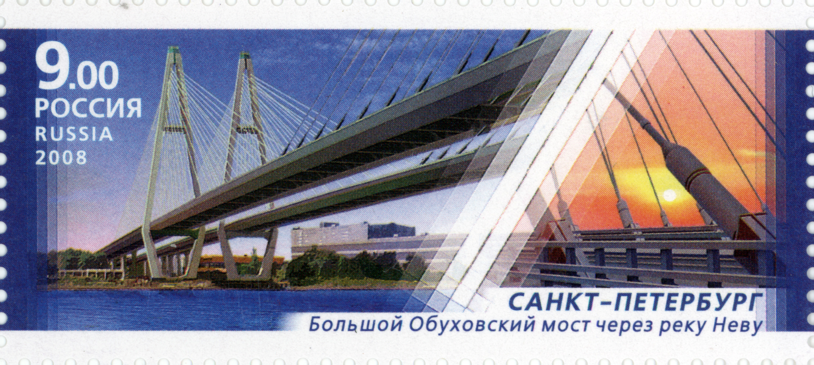 Postage stamp of Russia. 2008. Cable-braced bridges. Bolshoy Obukhovsky Bridge in Saint-Petersburg